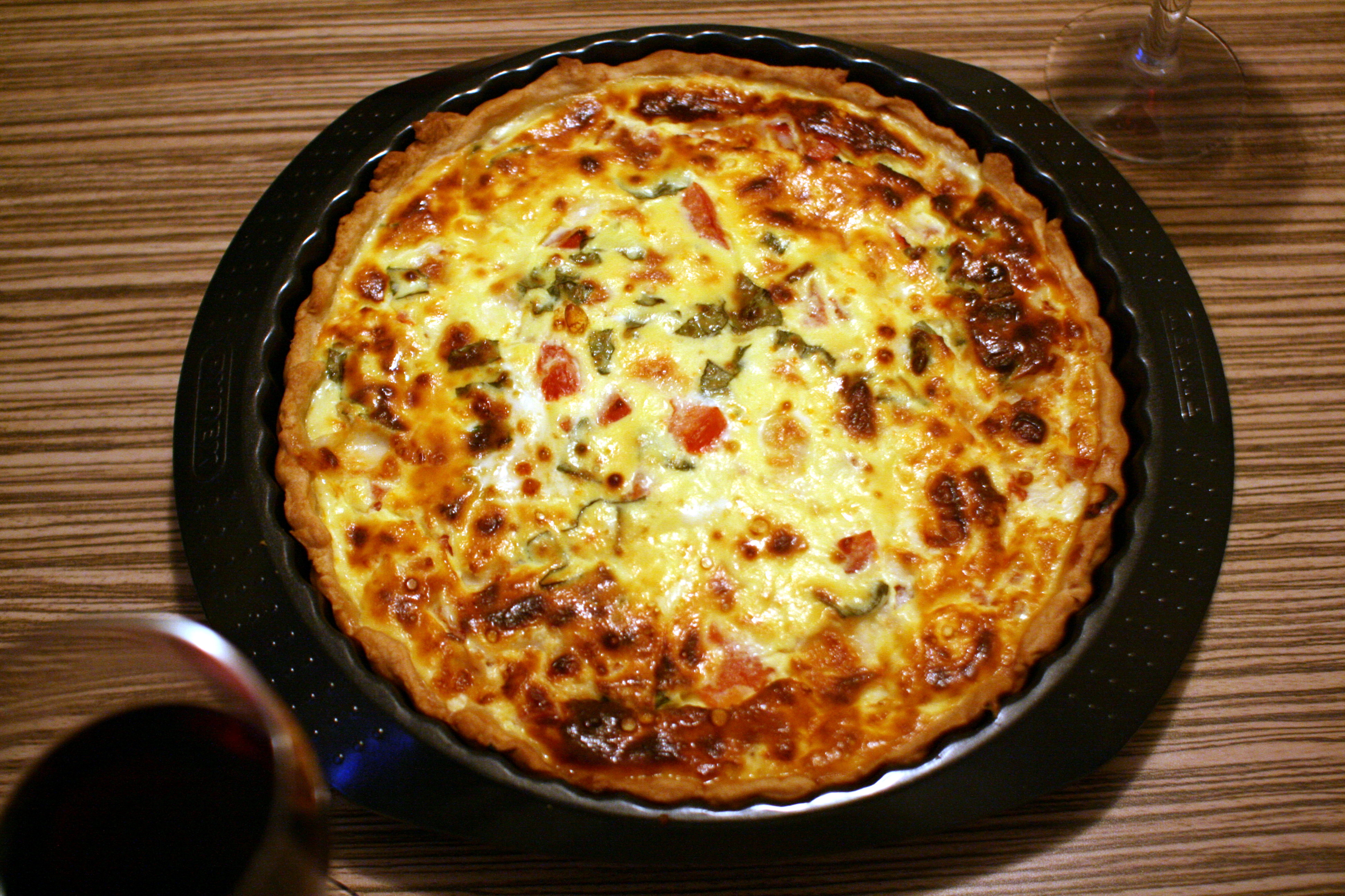 Quiche with Tomato, Mozzarella and Basil